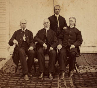 Portrait photograph of four Shaker elders: James S. Baime, Abraham Perkins, Benjamin H. Smith, and Henry C. Blinn.